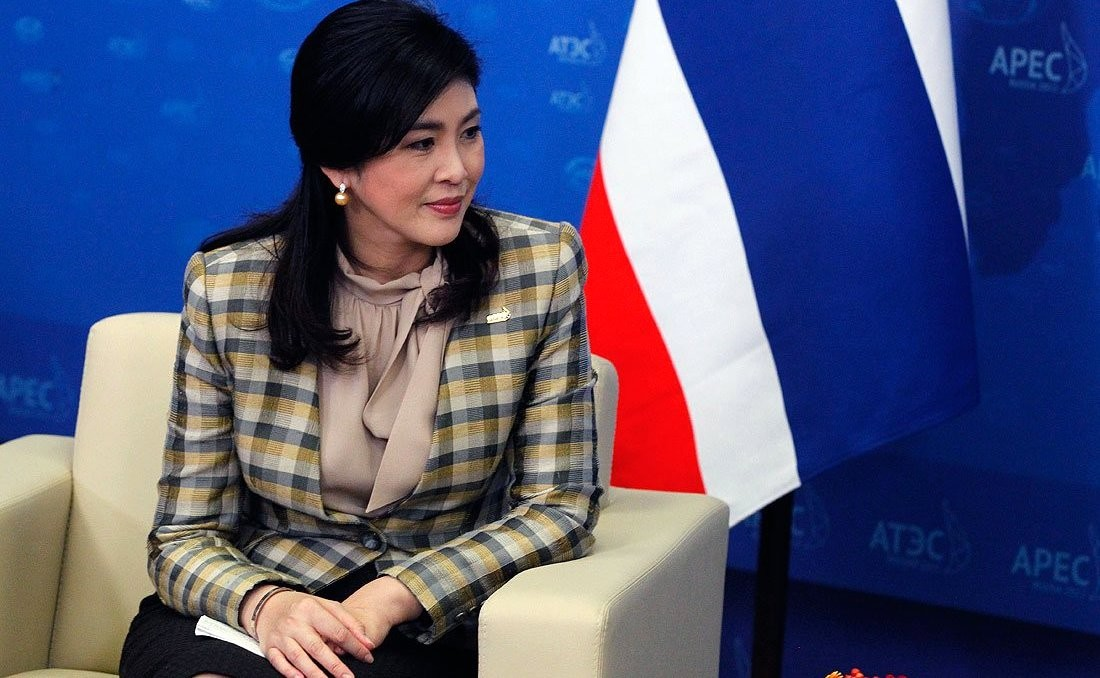 Vladimir Putin met with Prime Minister of Thailand Yingluck Shinawatra on the sidelines of the APEC summit.